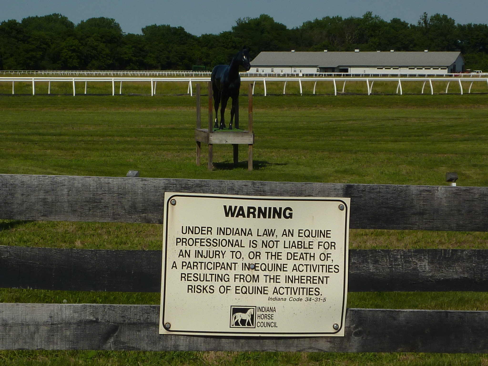 A horse mannequin standing on a platform in an "equestrian facility" of some kind. Seen off Mann Rd, in the northeastern Morgan County, Indiana.